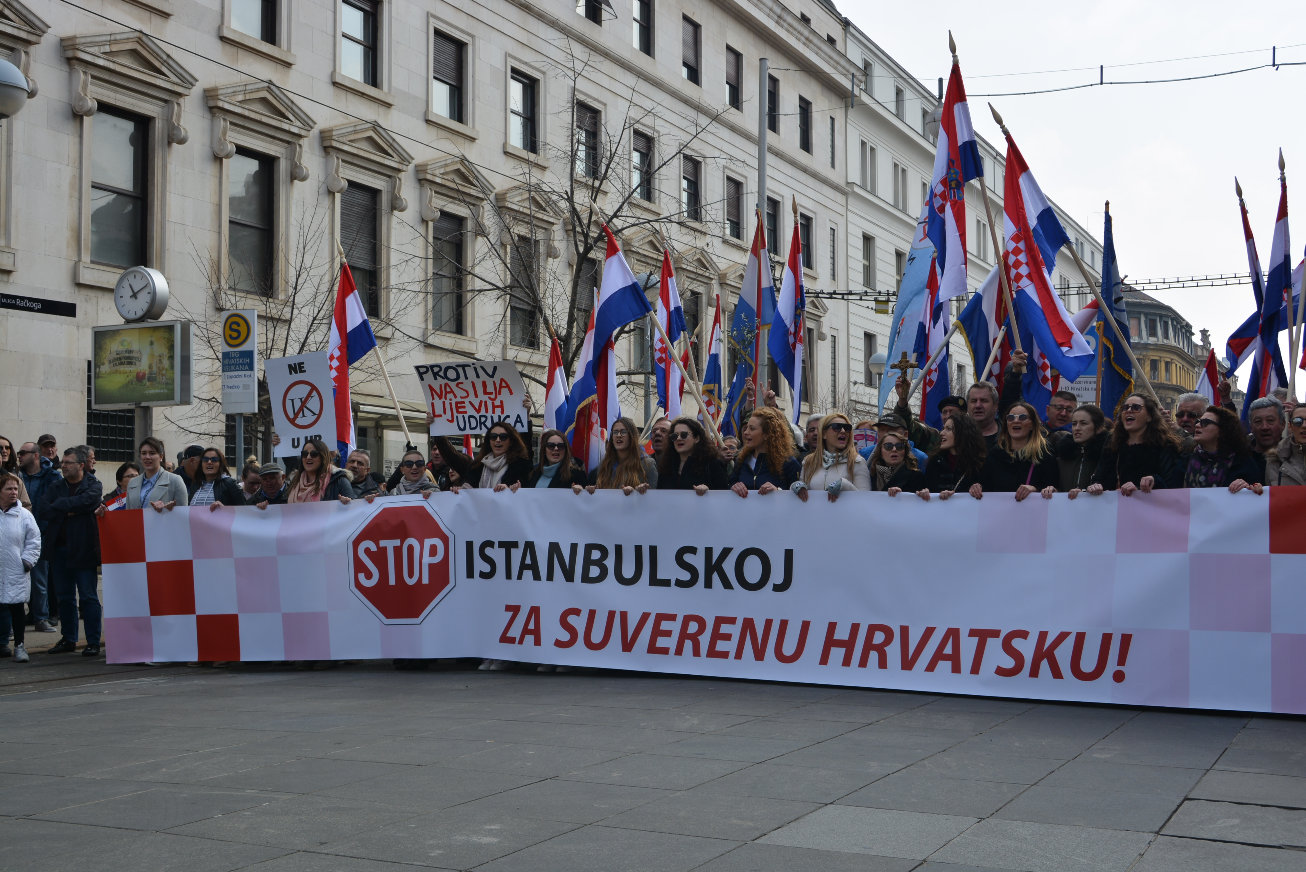 Protest against the ratification of the Istanbul Convention, March 24, 2018, Zagreb.